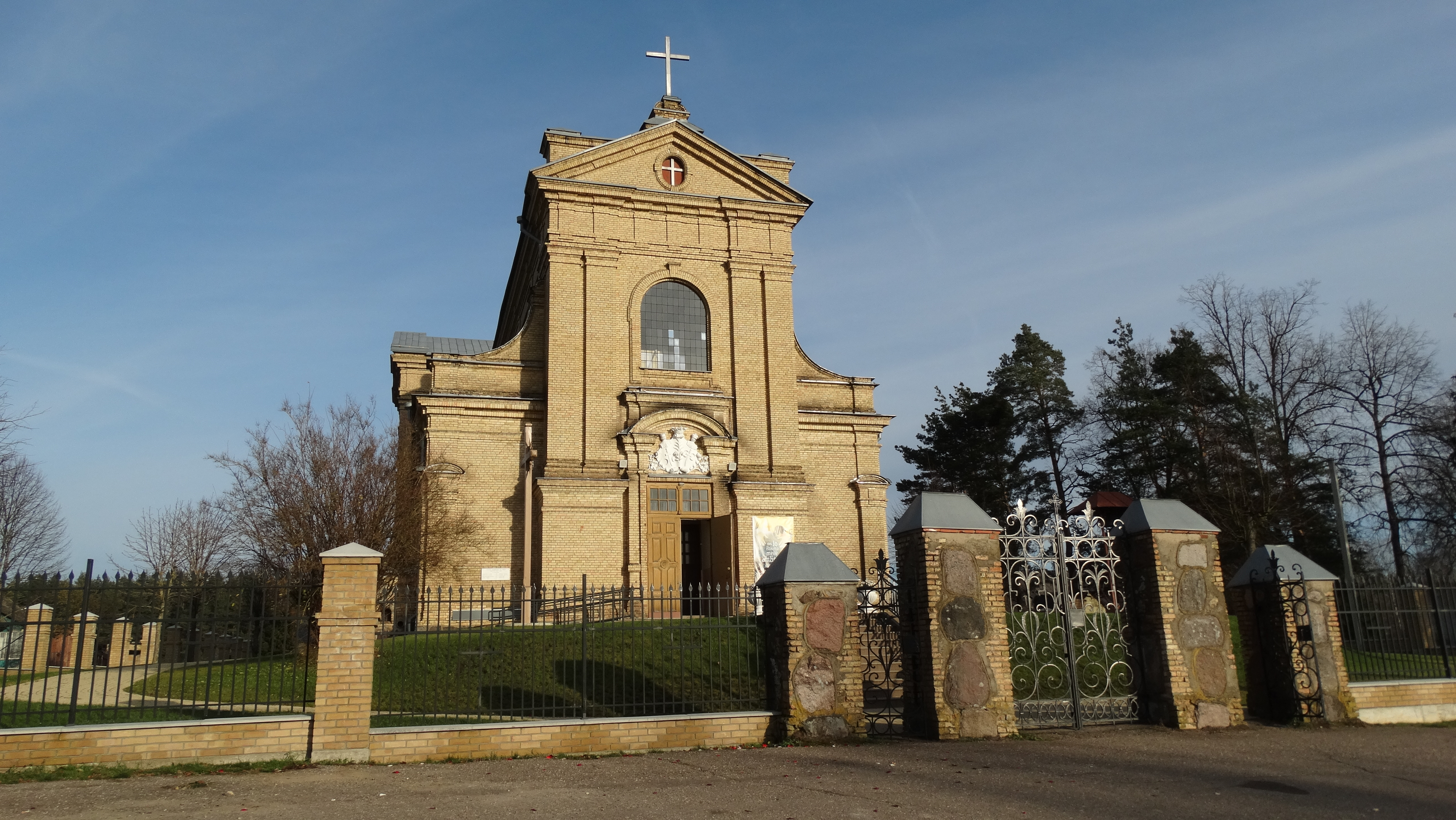 Church of the Conversion of Saint Paul, Vaidotai, Vilnius District, Lithuania